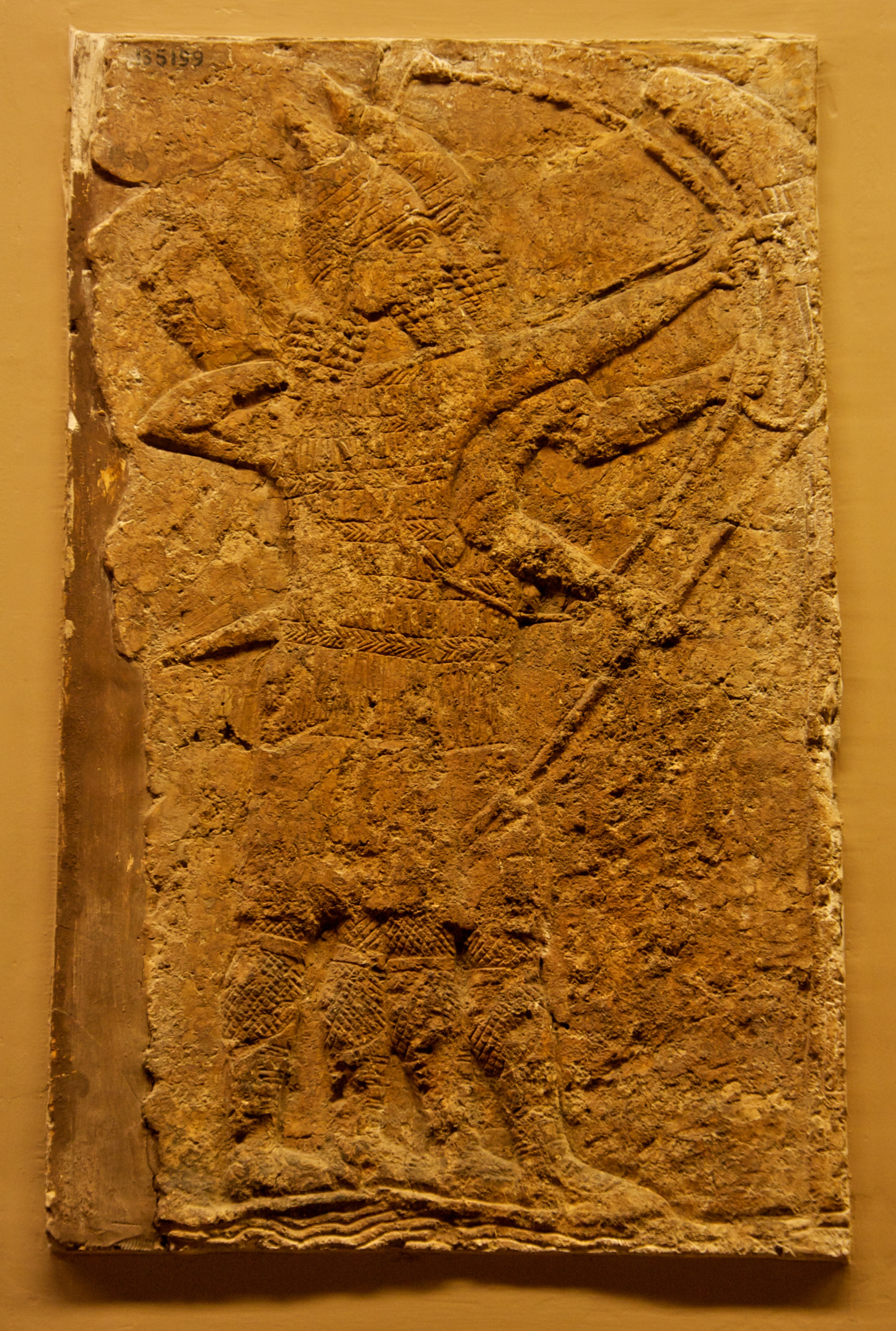 Heavy-armed archers in action. Assyrian, about 700-692 BC. From Nineveh, South-West Palace. WA 135199.